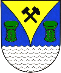 Coat of arms of Weißwasser